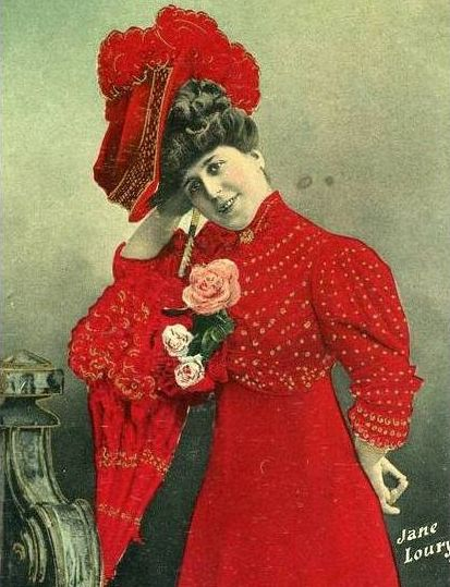 French actress Jane Loury (1876-1951), circa 1910